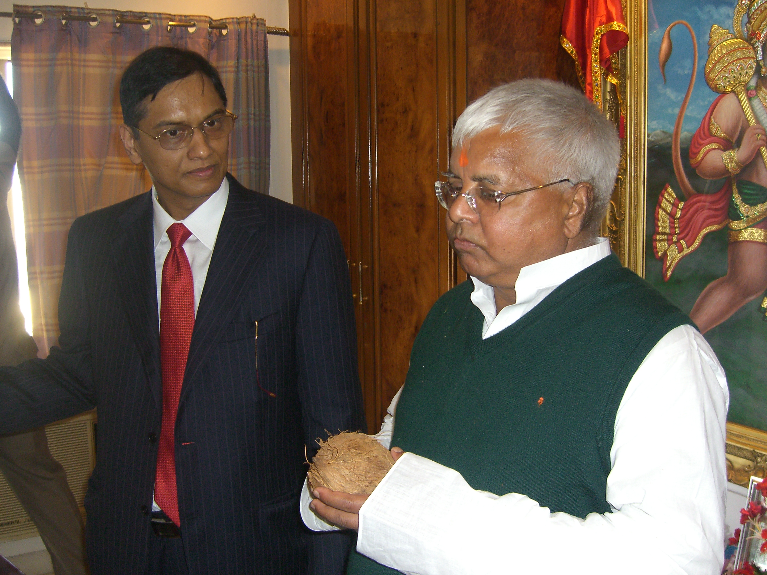 vinay maloo with lalu prasad yadav